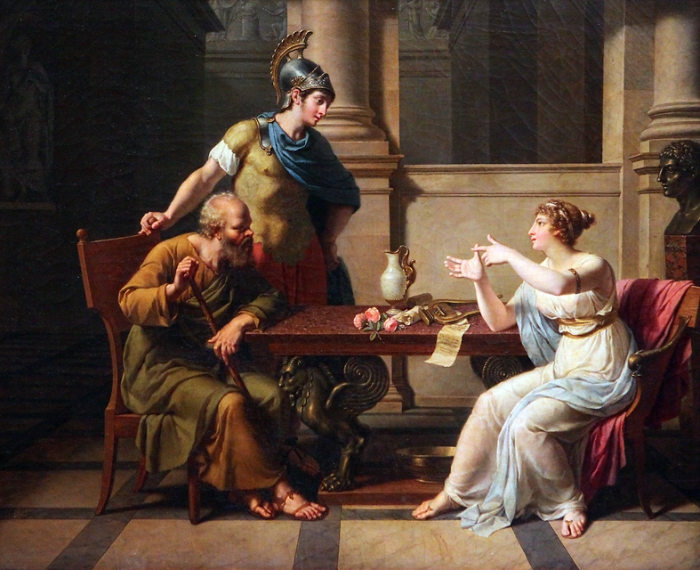 Aspasia conversing with famous men (Museum Pouchkkine)